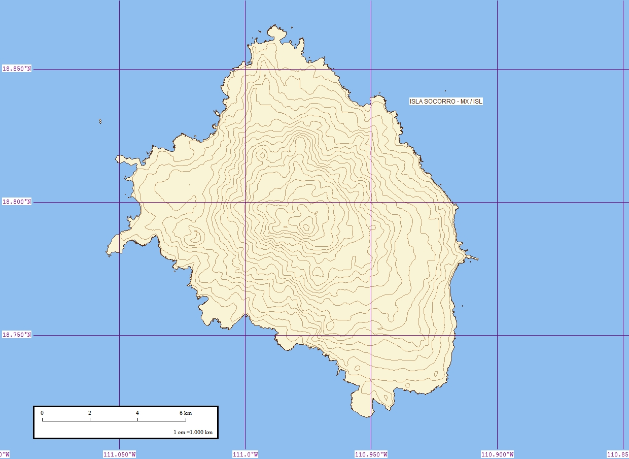 Map made by PJ MInton Using Marplot Mapping Program